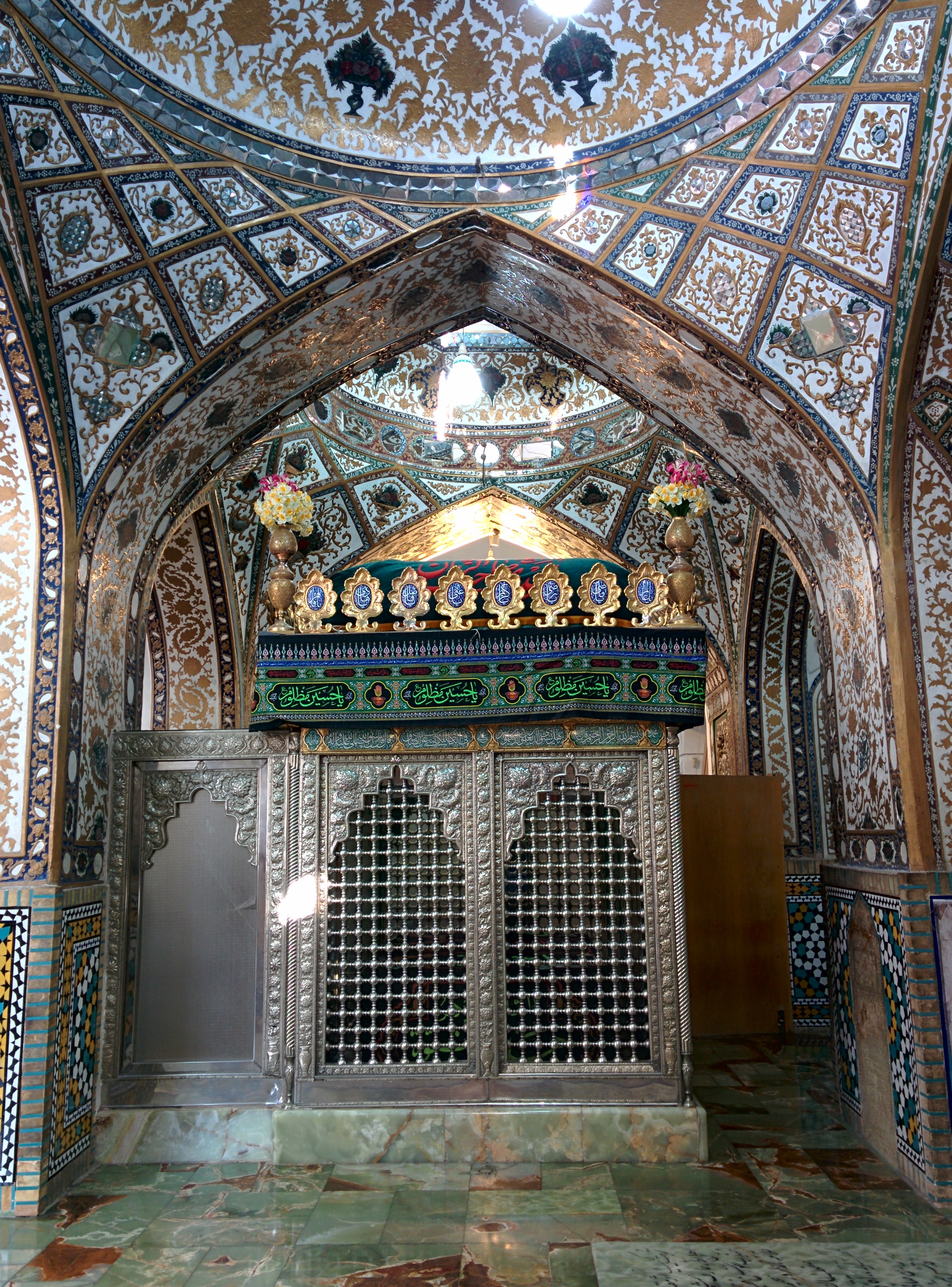 Muhammad Baqir Majlesi (1616–1698 AD)